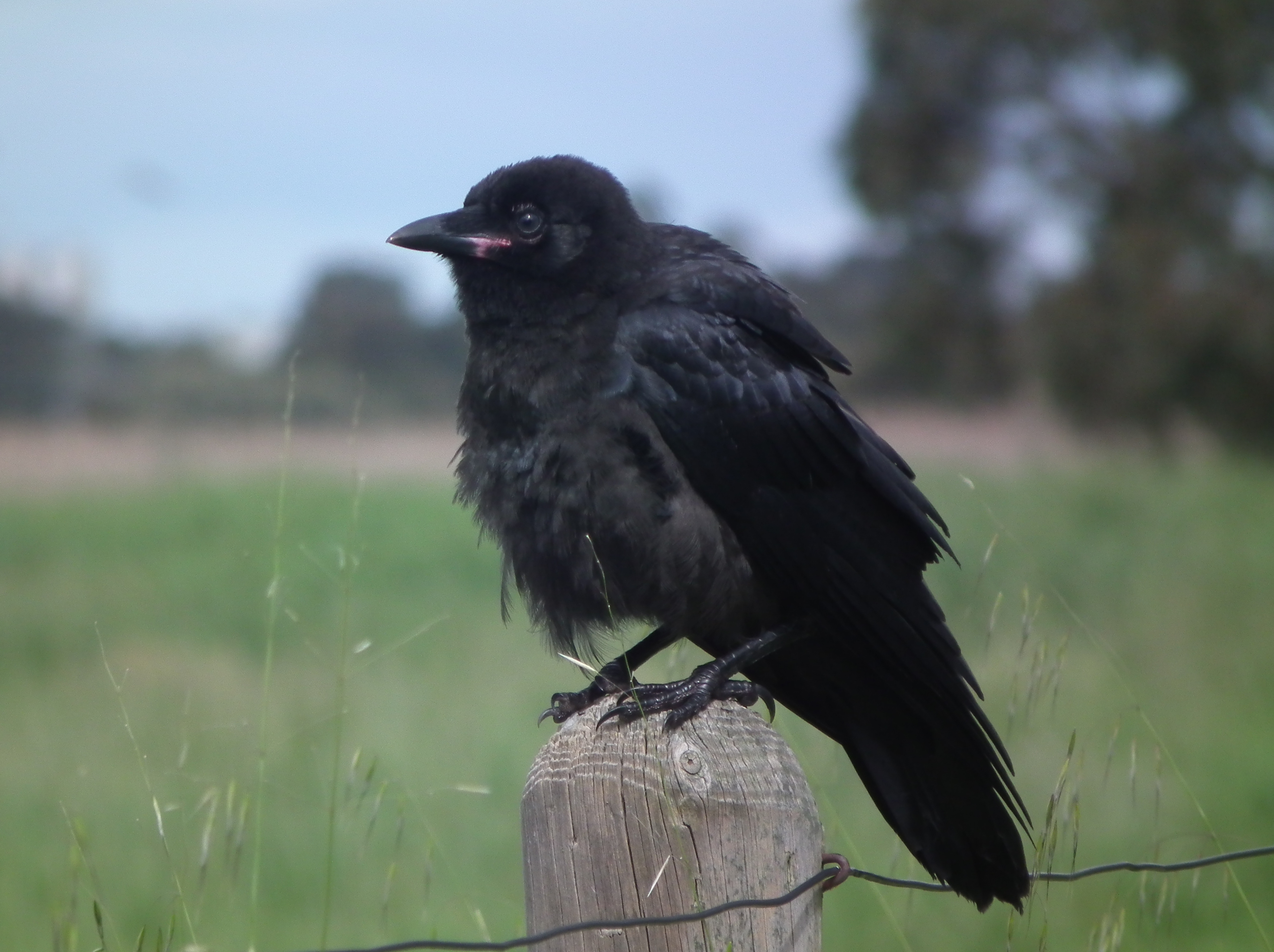 A juvenile Little Raven at Edithvale Wetland, Melbourne, Australia.